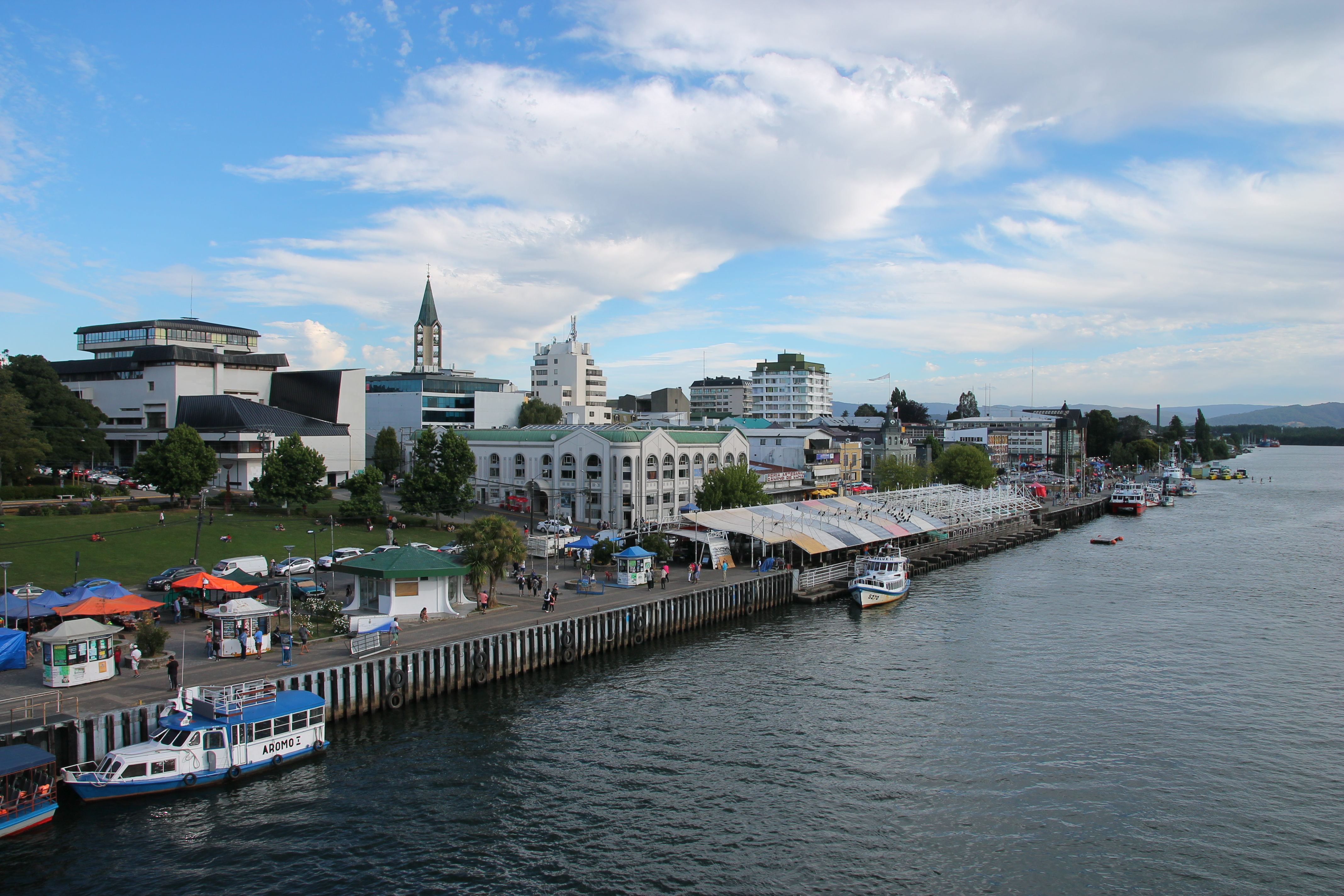 View of Valdivia from the Pedro de Valdivia Bridge